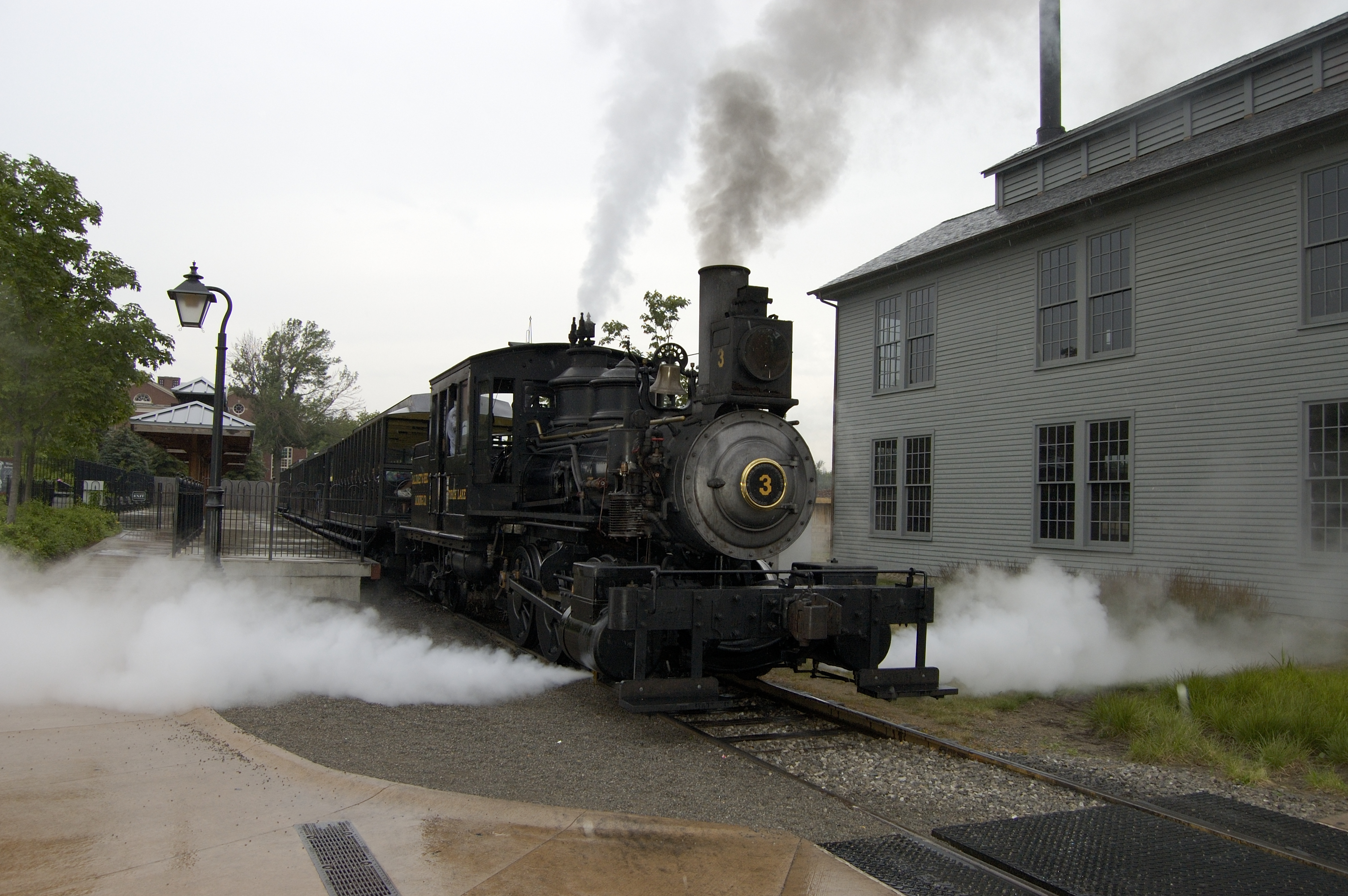 A steam locomotive photographed at Greenfield Village in Dearborn, Michigan, USA. This one pictured, known as Torch Lake, is claimed to be "the oldest steam locomotive operating on a daily basis in the United States"[1]. Built in 1873 at the Mason Machine Works, Taunton, Mass. (factory #518)